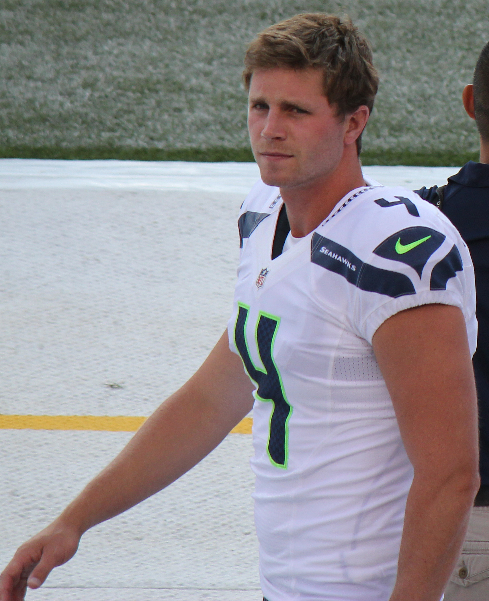 Steven Hauschka, a National Football League player.